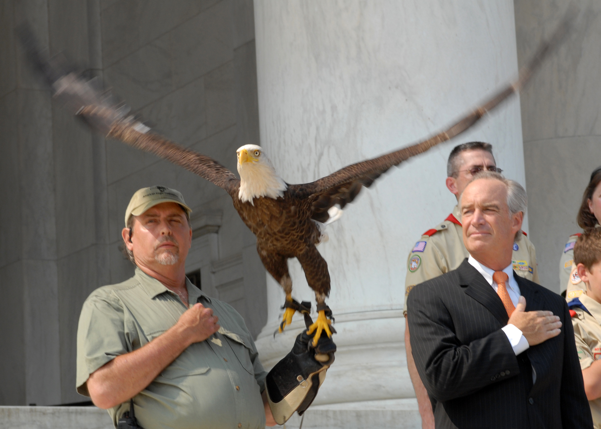 Challenger, a bald eagle, takes flight during the Bald Eagle Recovery and Final Delisting ceremony held at the Jefferson Memorial, June 28, 2007, as Interior Secretary Dirk Kempthorne (right) stands with his hand over his heart. Defene Dept. photo by Petty Officer 2nd Class Molly A. Burgess, USN